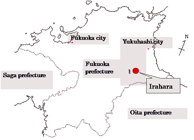 Irahara, Fukuoka Map